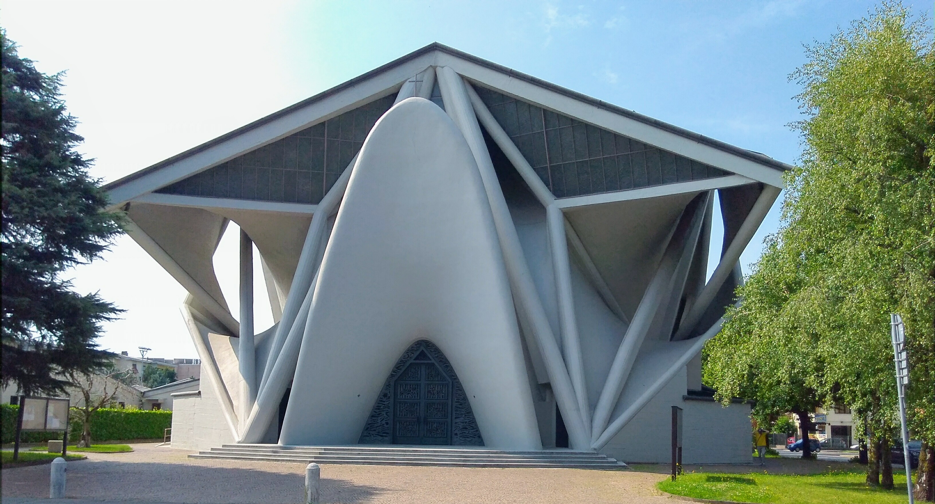 Longueli church at Bergamo, Italy, facade